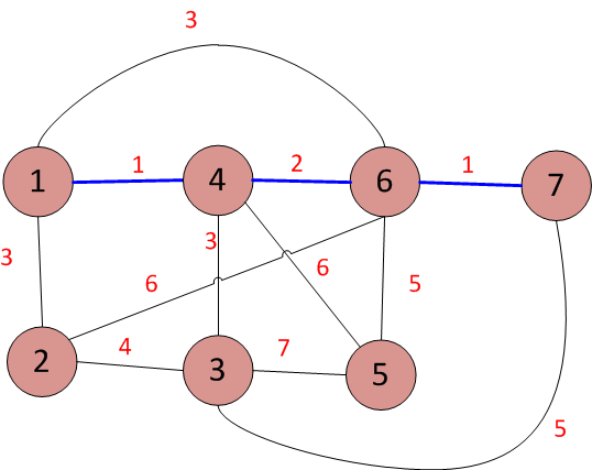 step 3 for debug Kruskal